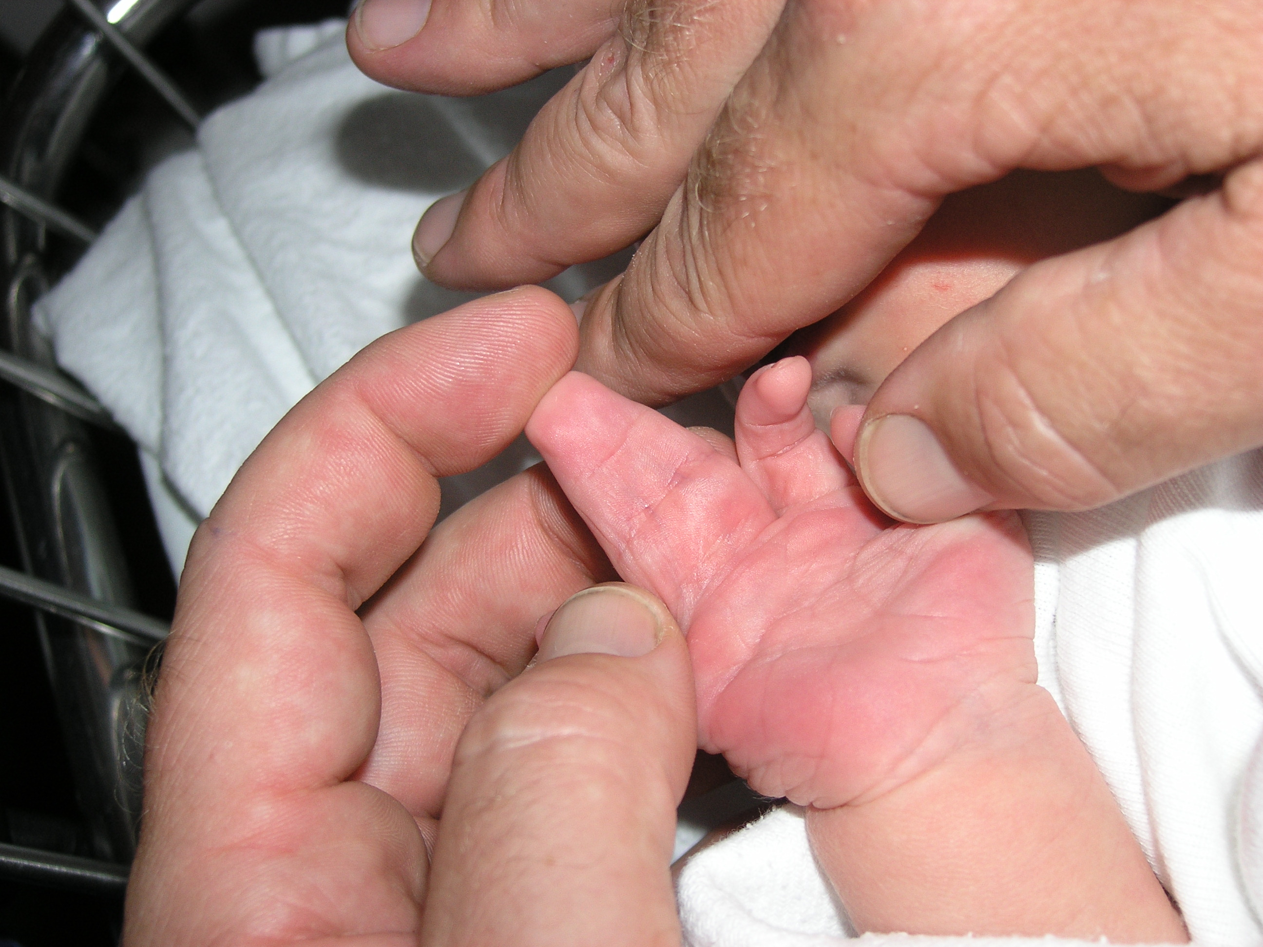 New born baby hand showing complete complex syndactyly of two fingers (III & IV)